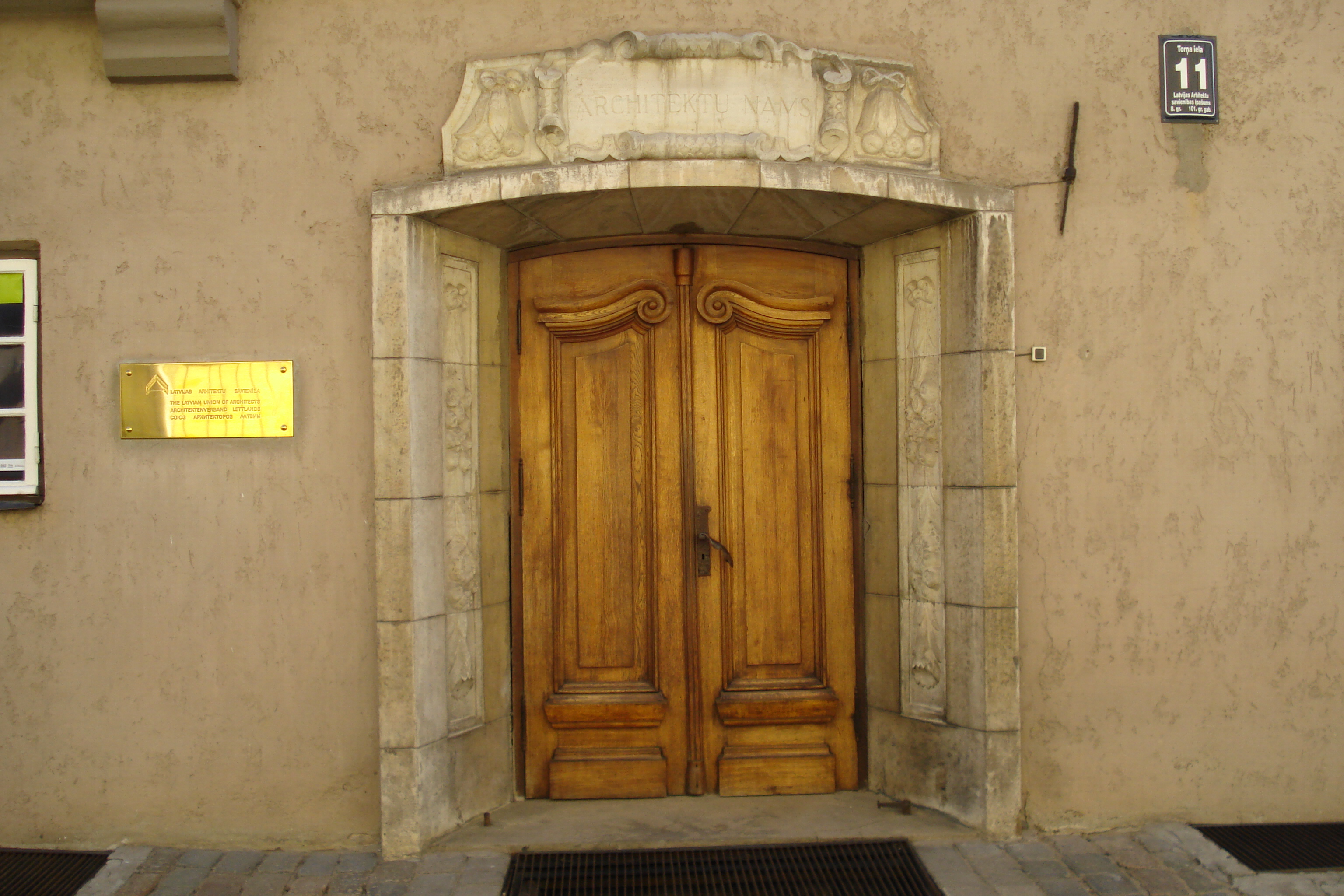 Architect House in Riga (Arhitektu nams) belongs to the Latvia Association of Architects and it is a meeting place for architects. Torņa iela 11/15